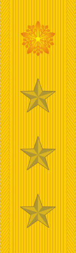 Rank insignia of Supreme Commander, highest military rank of Manchukuo